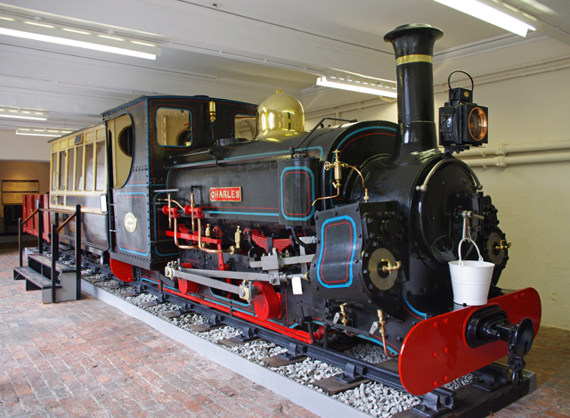 Charles at Penrhyn Castle. Built by Hunslet in 1882 for the Penrhyn Quarry Railway, now in Penrhyn Castle Industrial Railway Museum. The PQR carried slate from Penrhyn Quarry to Porth Penrhyn. The quarry and castle were owned by the Pennant family. Two similar locomotives, Blanche and Linda, are now preserved on the Ffestiniog Railway. Both have been rebuilt and fitted with tenders.